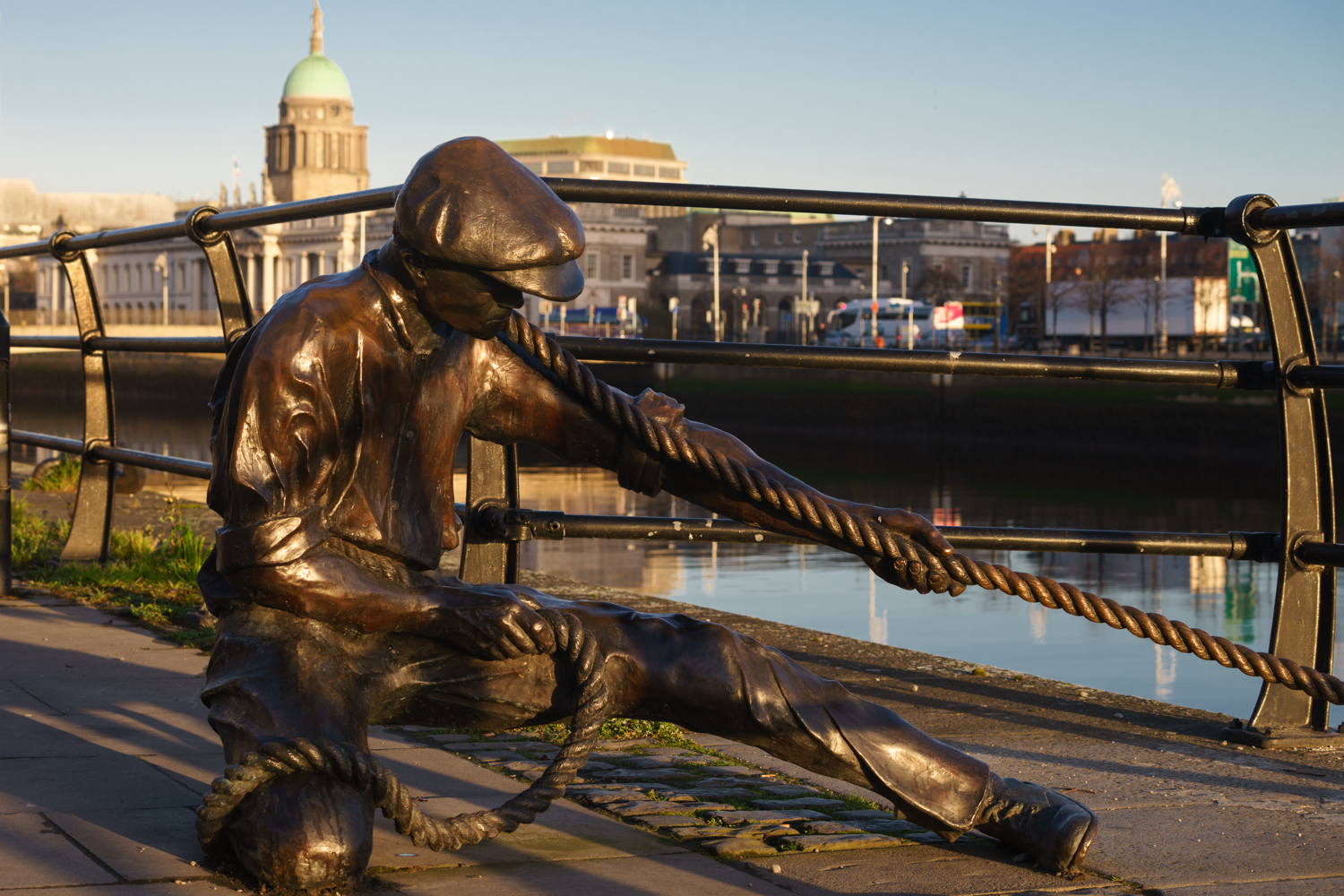 The Linesman